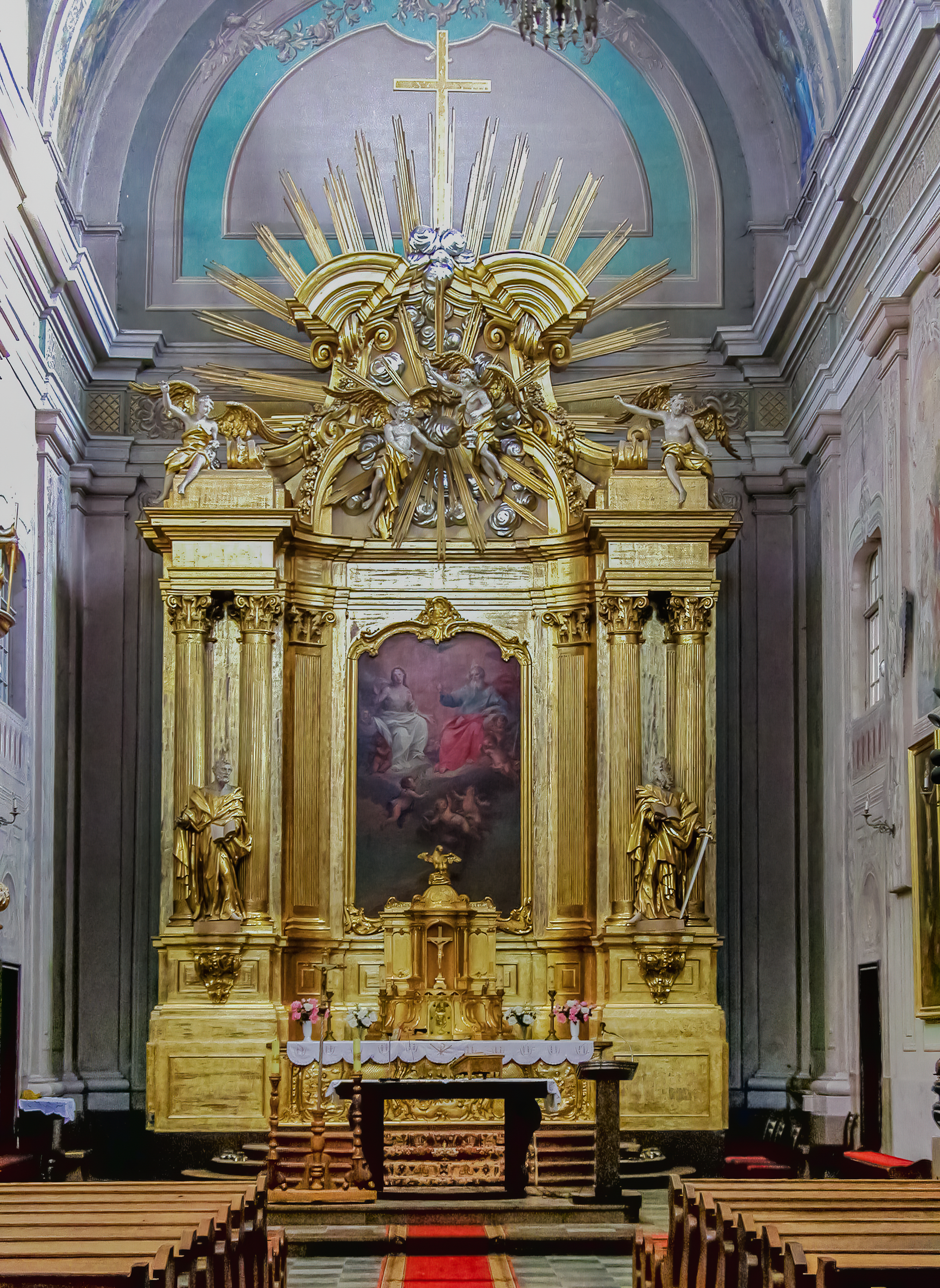 Holy Trinity church in Tykocin - main altar